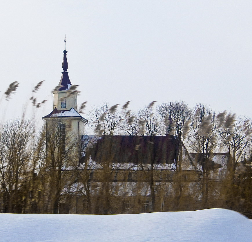 Church in Dūkštas, Lithuania